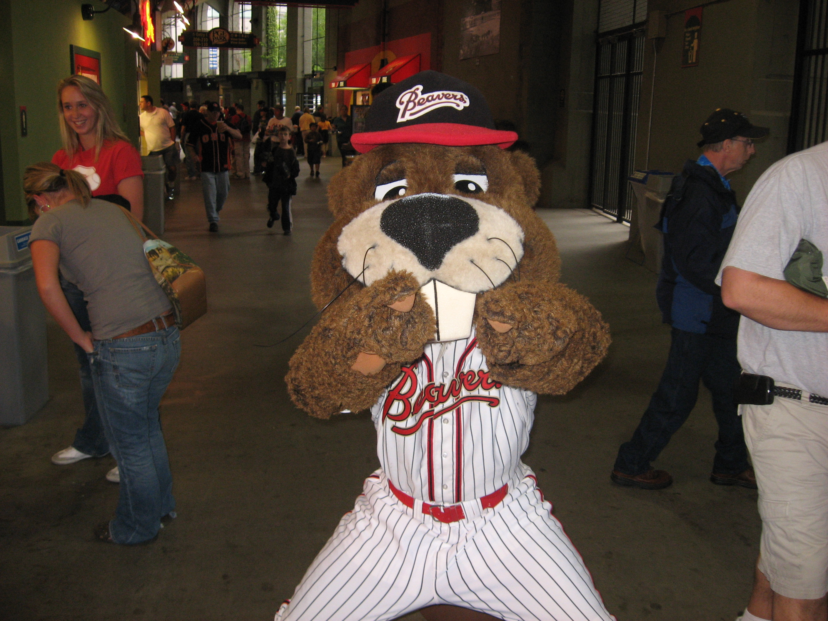 The Portland Beavers mascot in 2007.